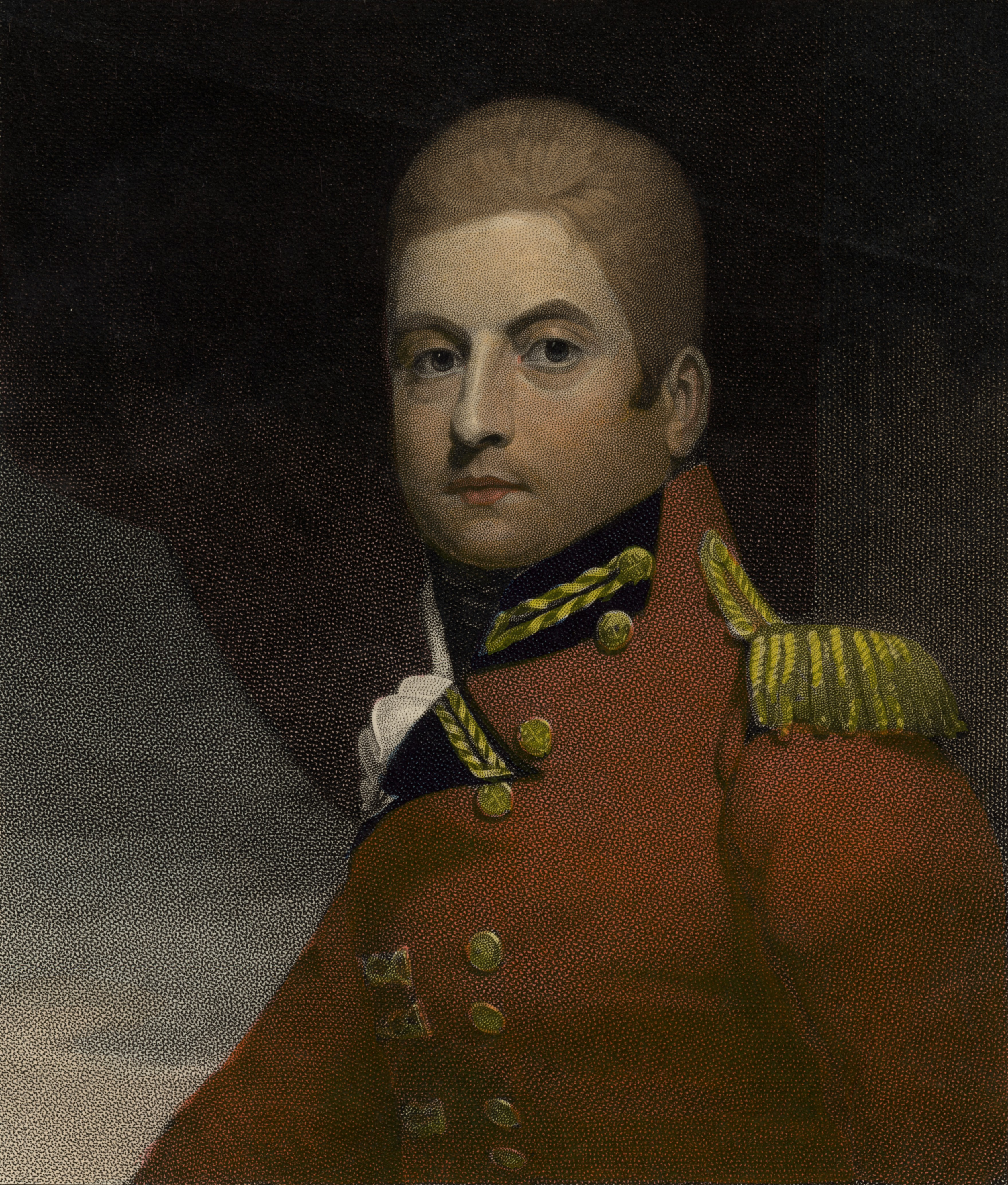 Major General The Marquis of Huntly, Colonel of the 42nd Regiment.